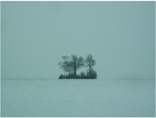 Kogelbaum in Lower Austria This media shows the natural monument in Lower Austria with the ID PL-157. (other)